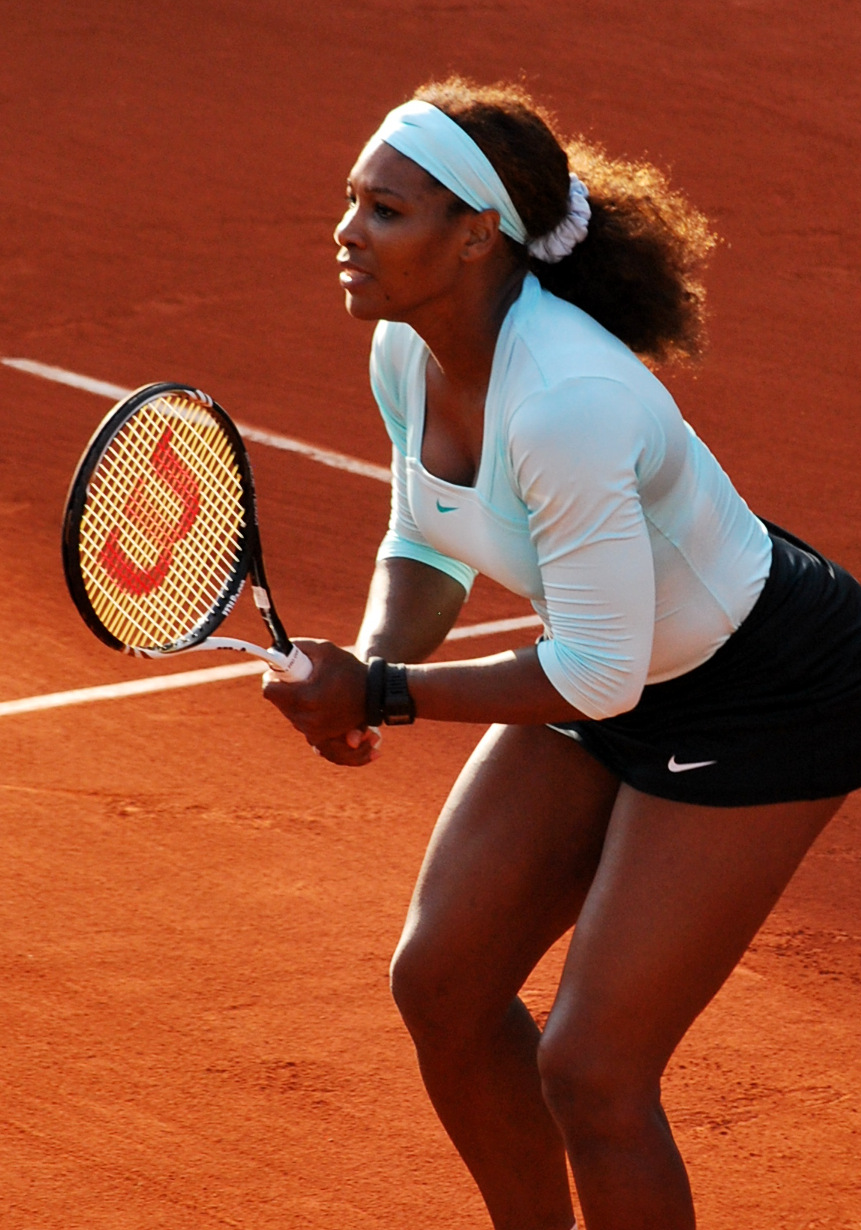 Serena Williams playing mixed doubles with Bob Bryan. Day 6 of Roland Garros 2012.